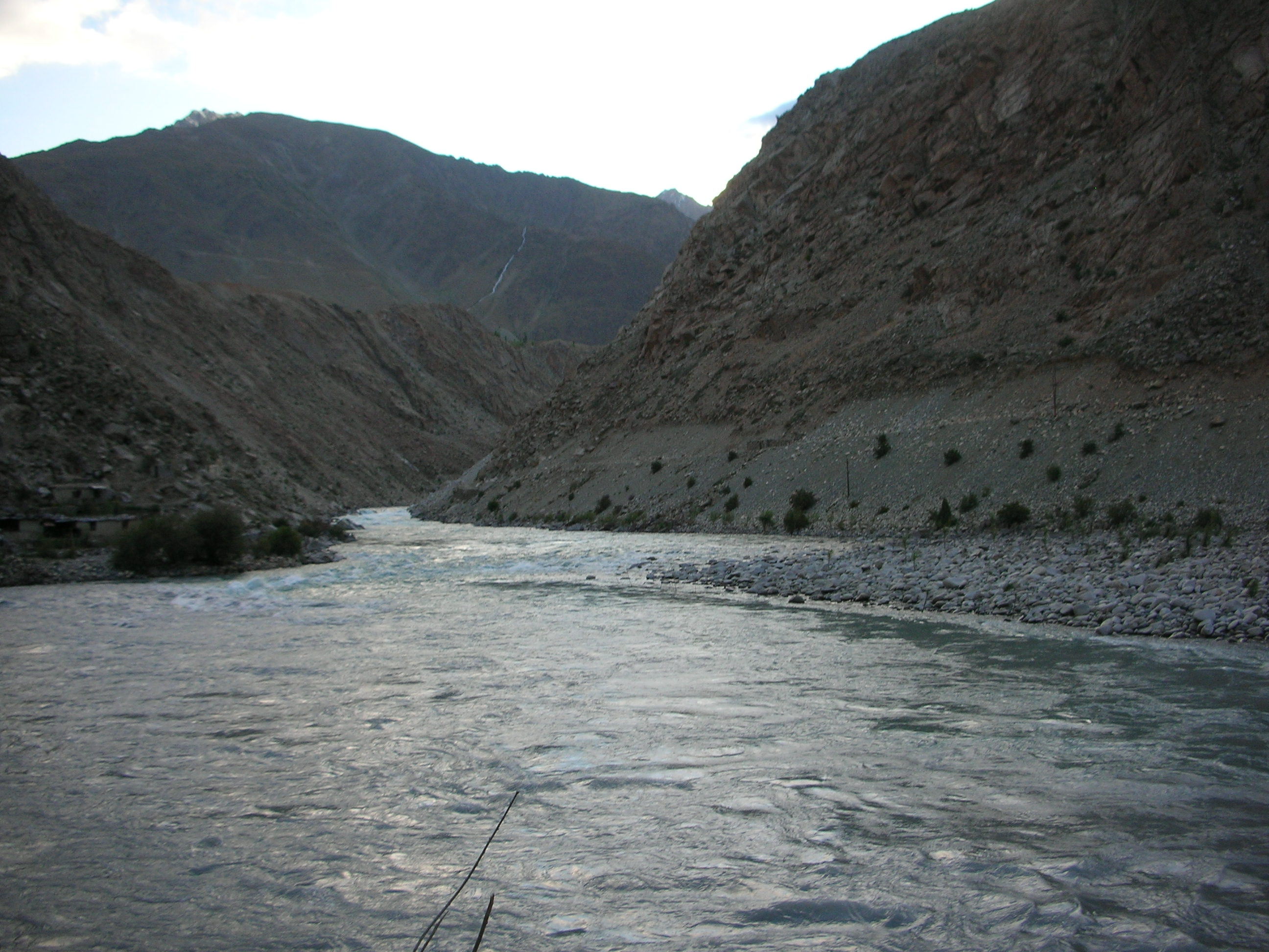 This shot is taken from the banks of the great Indus River in Kargil. Visible behind is the Tiger Hill, which was the hotspot of 1999 Kargil War. The LOC is just a few miles away!